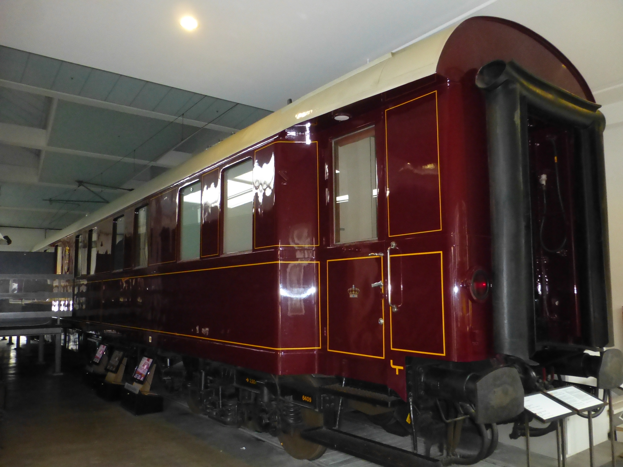 Royal car DSB S 1 from 1937 at Danmarks Jernbanemuseum in Odense.